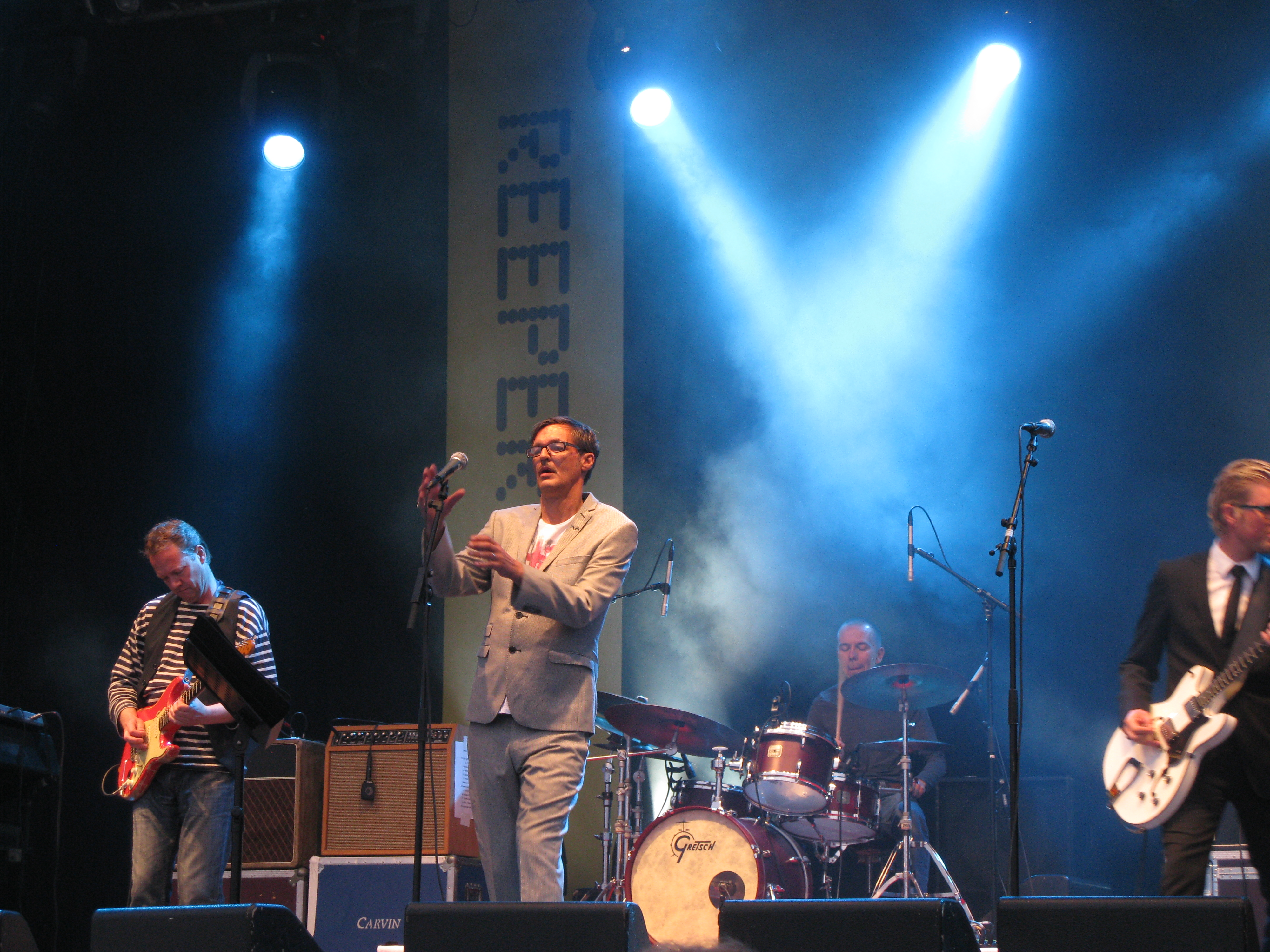 Reeperbahn, playing at Forever Young concert in Varberg, Sweden, 2010